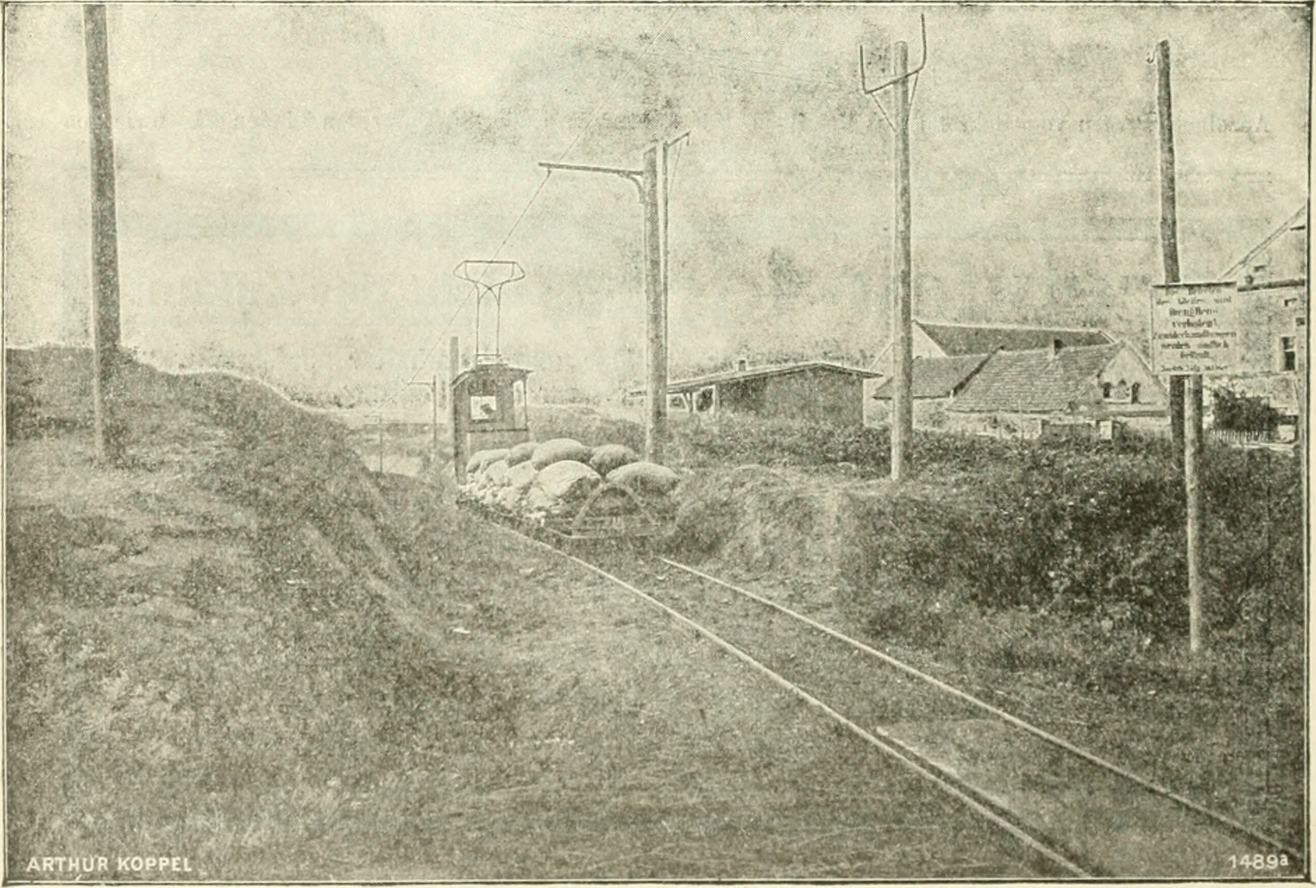 Title: Der Tropenpflanzer; zeitschrift für tropische landwirtschaft Year: [1] (s) Authors: Subjects: Tropical plants; Tropical crops Publisher: Berlin Text Appearing Before Image: I Deutsches Holonialbaus Bruno Antelmann Hoflieferant Sr. K. Holieit des Gross- lierzogs von Mecklenburg-Schwerin. HauptgeseliÃ¤ftu.Versaiul-Aljtli. C. Jerusalemerstr. 28, Fernspr. I, 937 und la, 5680. ZweiggeseliÃ¤ft W. Schillstr. 16, Fernspr. IX, 7244. 300 Yerkaulsstelleu iu Dentschlaud. â Xeue Averden gesuj-ht. â n: de 4) â â â¢ Usaiii1)aru-Kairee â¢ ist billiger geworden. Das Pfund gerÃ¶stet Mk. 1,â 1,40 bis 1,80. 1,20, Schokoladensacbeu fÃ¼r das Osterfest. Deutsches Salat- und Speise-Oel aus ErdnÃ¼ssen unserer Kolonien. StÃ¤ndiger Verhraucli in den Kaiser- lichen HofkÃ¼chen. Zigarren, Kiautschou - Zigaretten. AVolillahrts - Lottei-ie fÃ¼r die deutschen Kolonien. Lou.se der H. Ziehung (Ziehung im April) Ã¤M.3.30(Porto u. Liste 30Pf. extra) liegen zur Abgabe bereit. Arthur Koppel Tabrik von f eldbaliiieu fÃ¼r die Kolonieeu. Ceutralhaus: Berlin NW.7, Dorotheenstrasse 32. Text Appearing After Image: Elektrische Feldbahn in der Zuckerfabrik Zülz Oberschlesien.